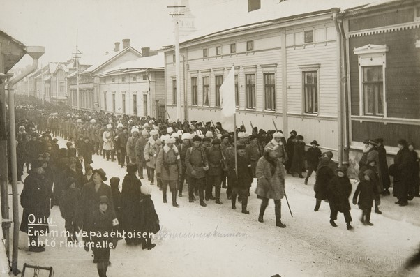 Oulu White Guard troops leaving for the front.